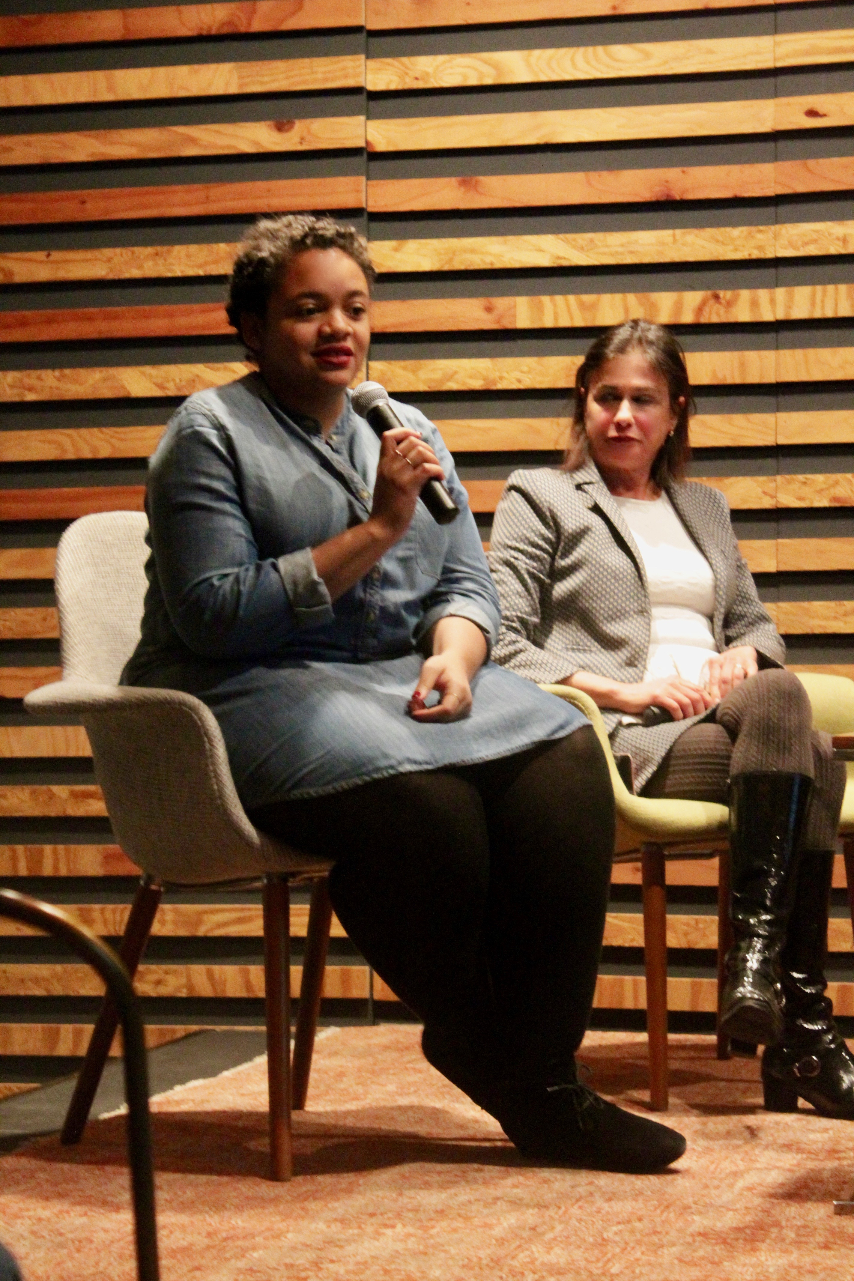 Shani O. Hilton, Head of U.S. News, BuzzFeed; Nina Burleigh, National Politics Correspondent, Newsweek